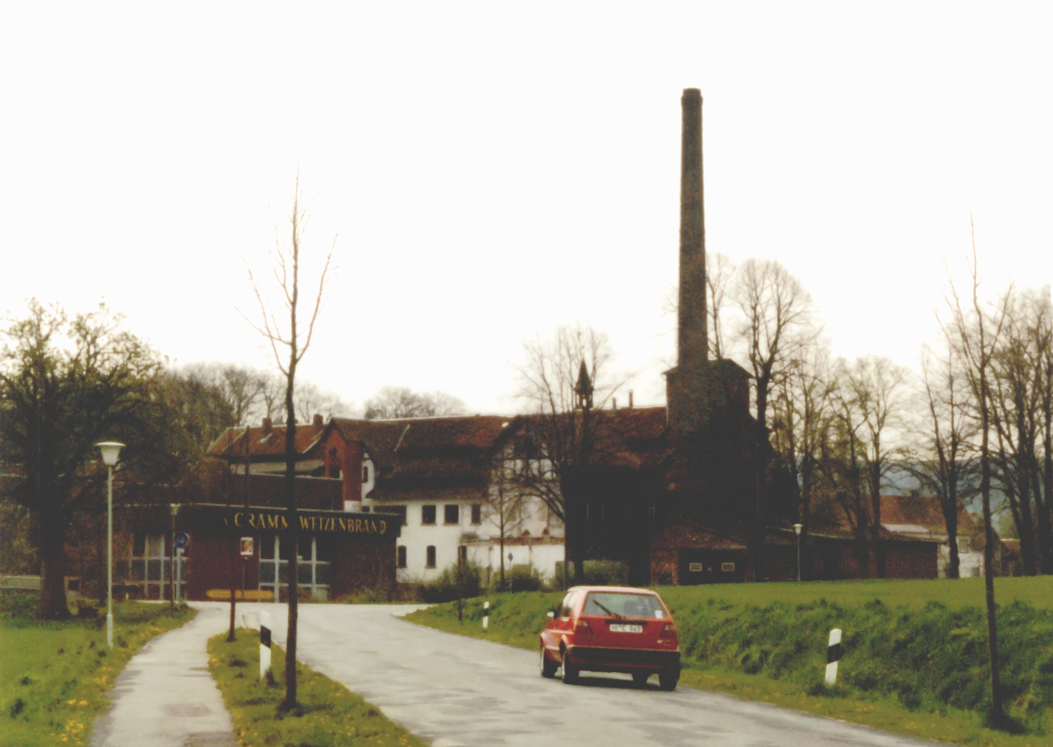 Harbarnsen